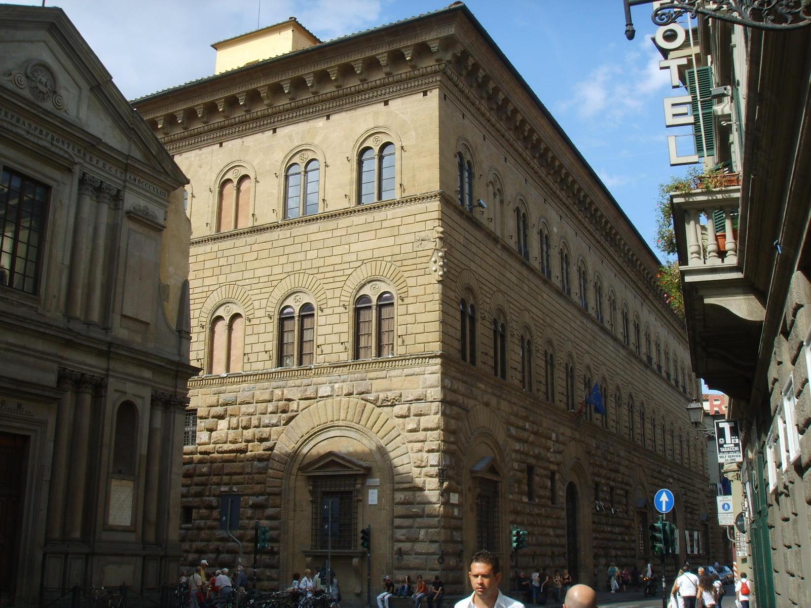 Facade and left flank of Palazzo Medici Riccardi in Florence, Italy.